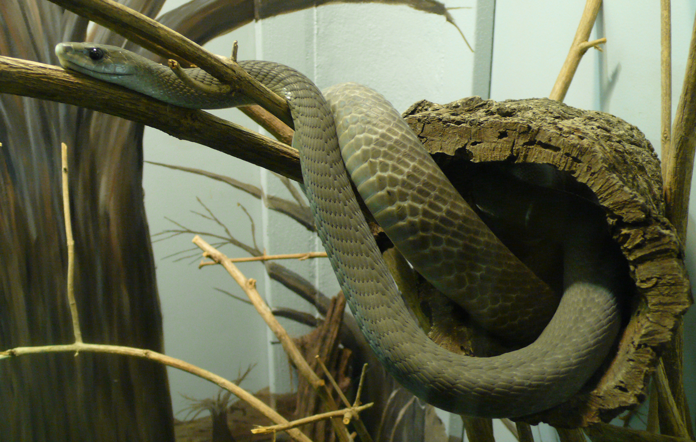 Black mamba (Dendroaspis polylepis)